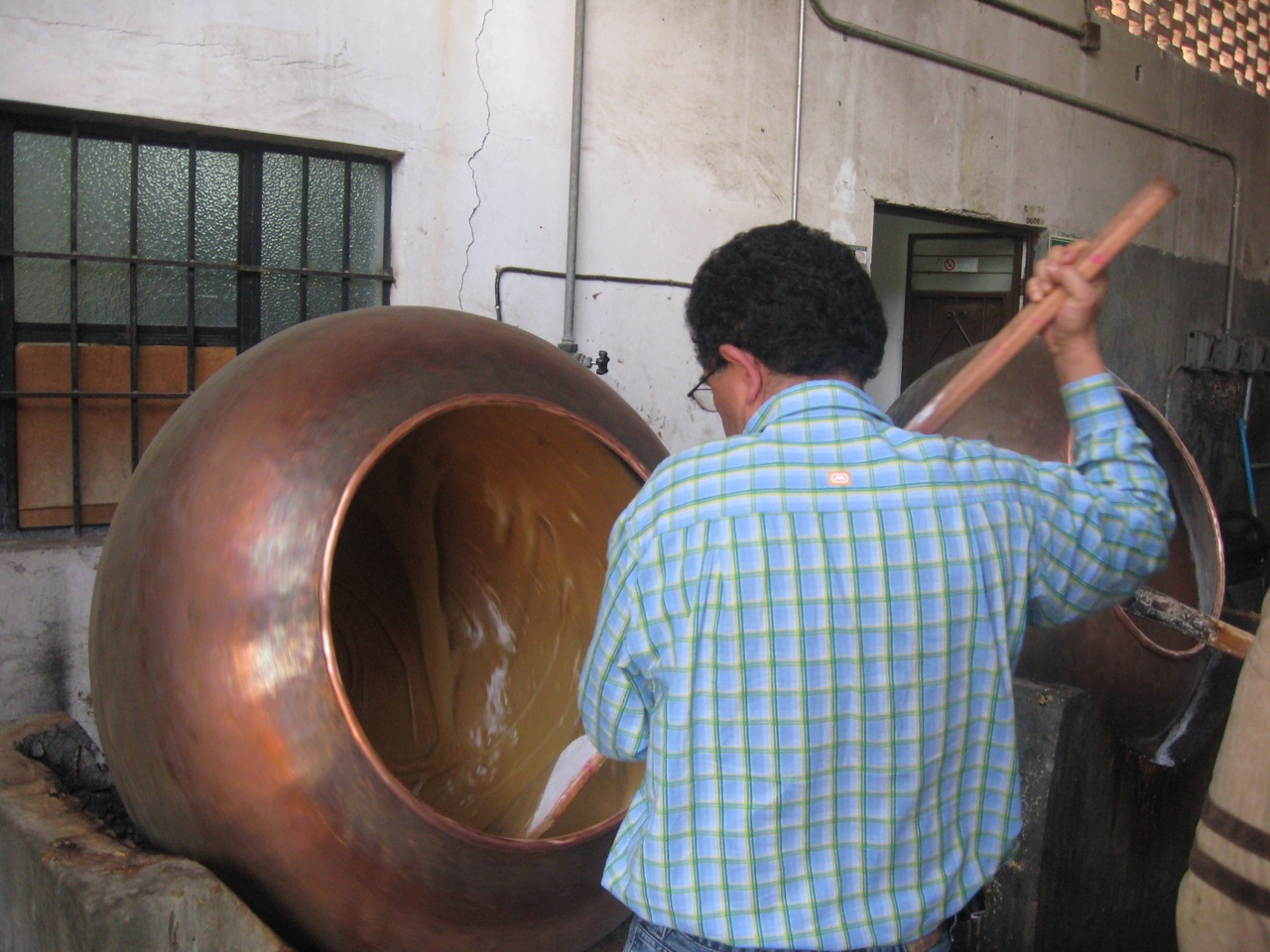 Making a batch of dulce de leche.